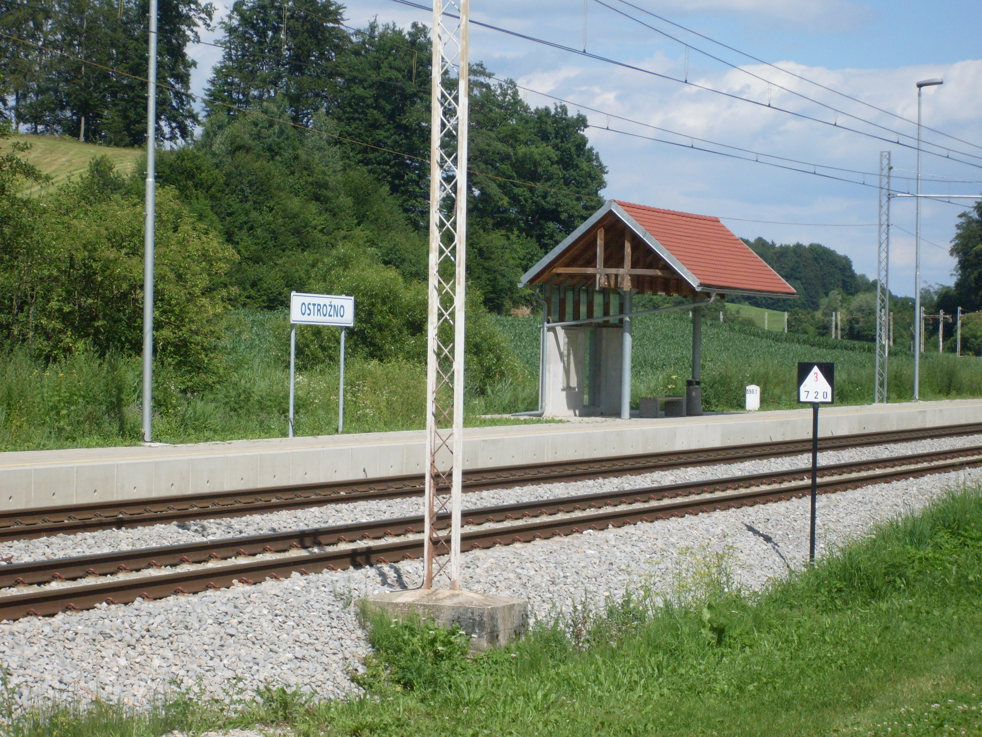 Northern platform of the railway halt in Ostrožno, serving villages Ostrožno pri Ponikvi and CecinjeSlovenščina: Severni peron železniškega postajališča Ostrožno, ki oskrbuje vasi Ostrožno pri Ponikvi in Cecinje